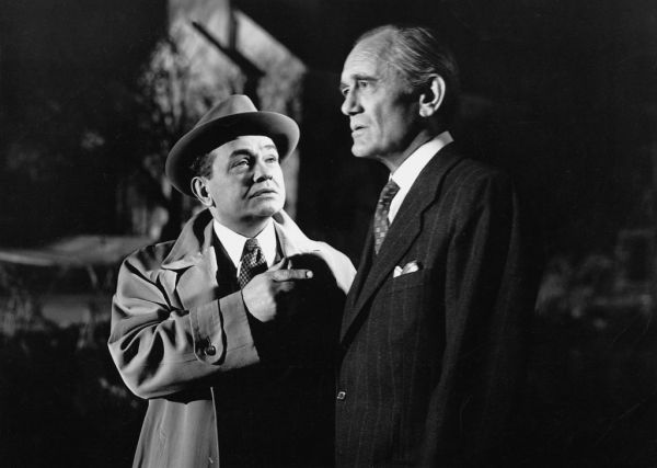 Edward G. Robinson (left) and Philip Merivale (right) in The Stranger (1946), directed by Orson Welles.